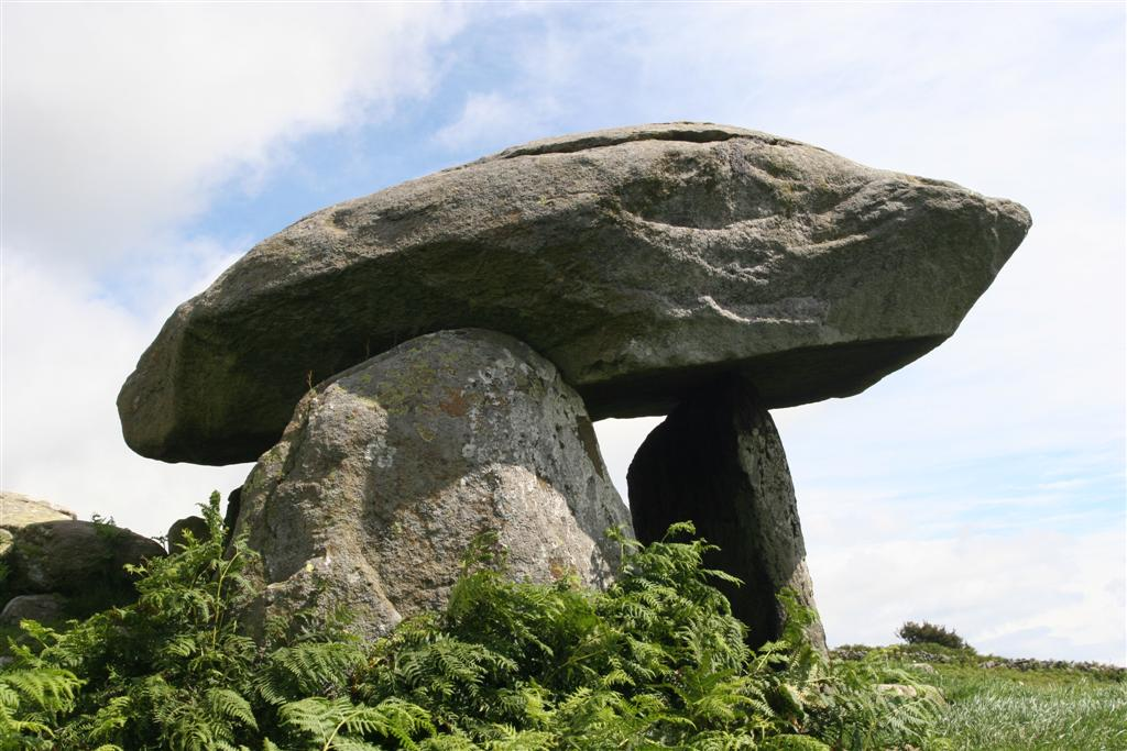 Maen y Bardd burial chamber, Conwy BC